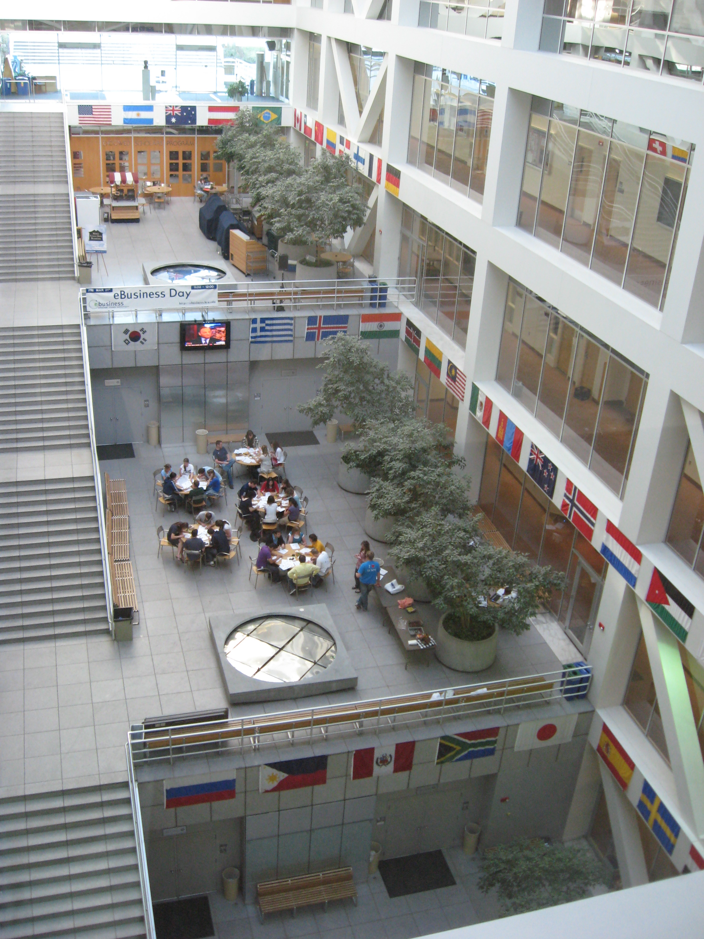 Tanner Building interior